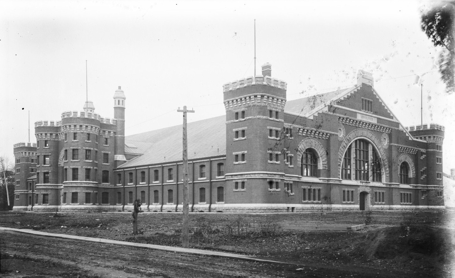 The Toronto Armouries on University Avenue, Toronto, Ontario, Canada.